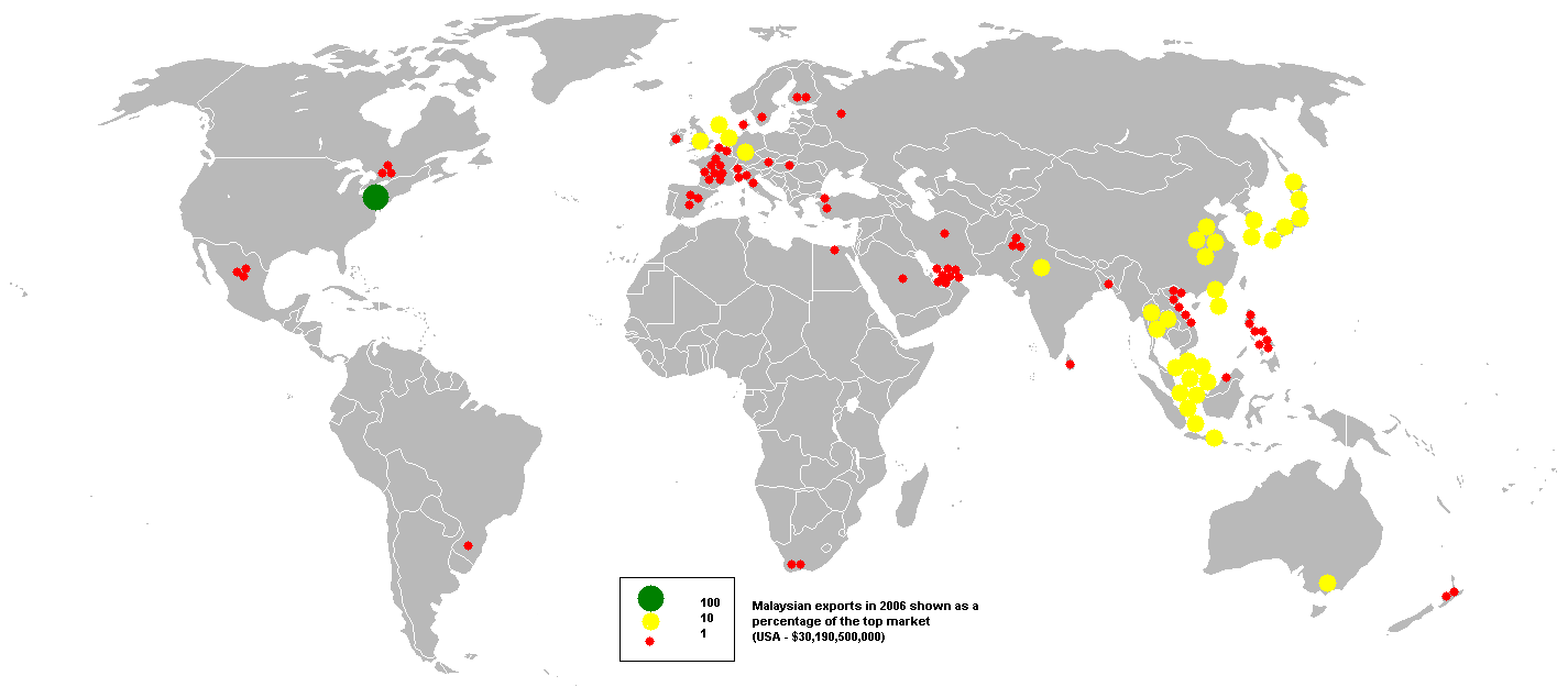 This bubble map shows the global distribution of Malaysian exports in 2006 as a percentage of the top market (USA - $30,190,500,000). This map is consistent with incomplete set of data too as long as the top producer is known. It resolves the accessibility issues faced by colour-coded maps that may not be properly rendered in old computer screens. Data was extracted on 19th September 2007 from Based on :Image:BlankMap-World.png